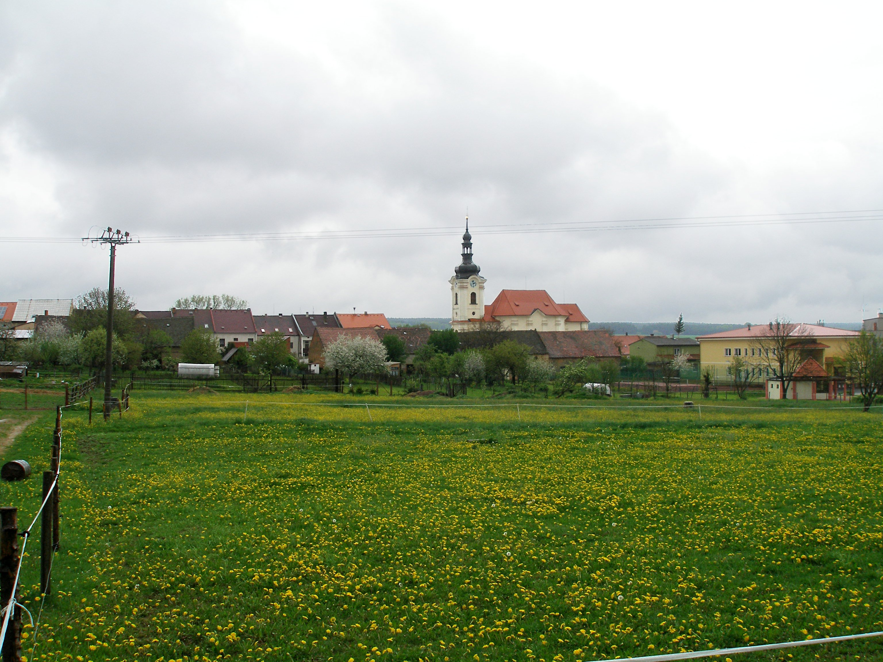 Černošín - the city centre from the south